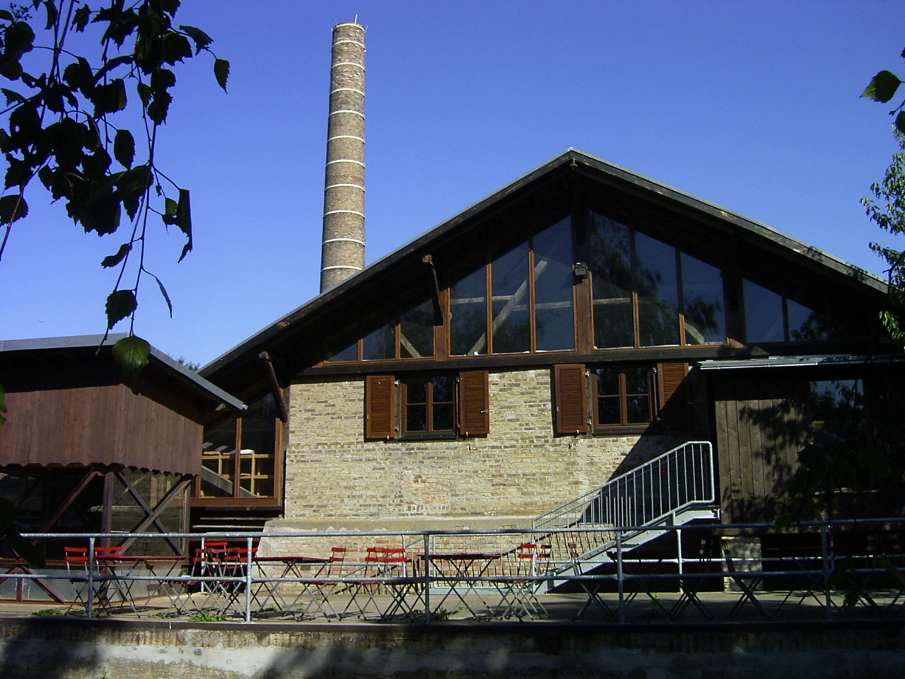 Ziegeleimuseum Mainz-Bretzenheim